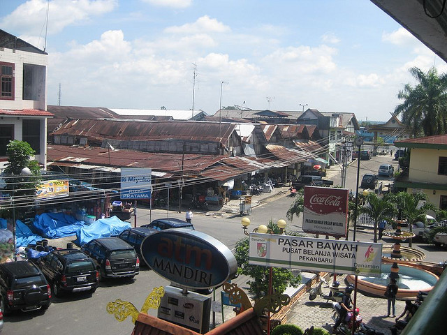 Pasar Bawah, Pekanbaru, Riau, Indonesia